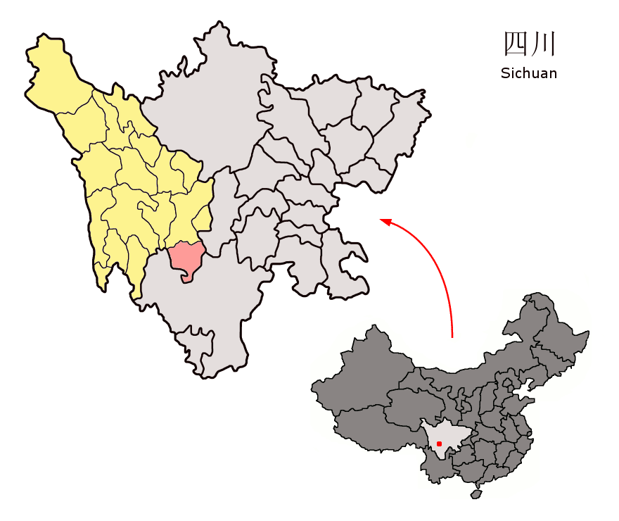 Location of Jiulong County (pink) and Garzê Prefecture (yellow) within Sichuan province of China Map drawn in september 2007 using various sources, mainly : Sichuan province administrative regions GIS data: 1:1M, County level, 1990 Sichuan Counties map from